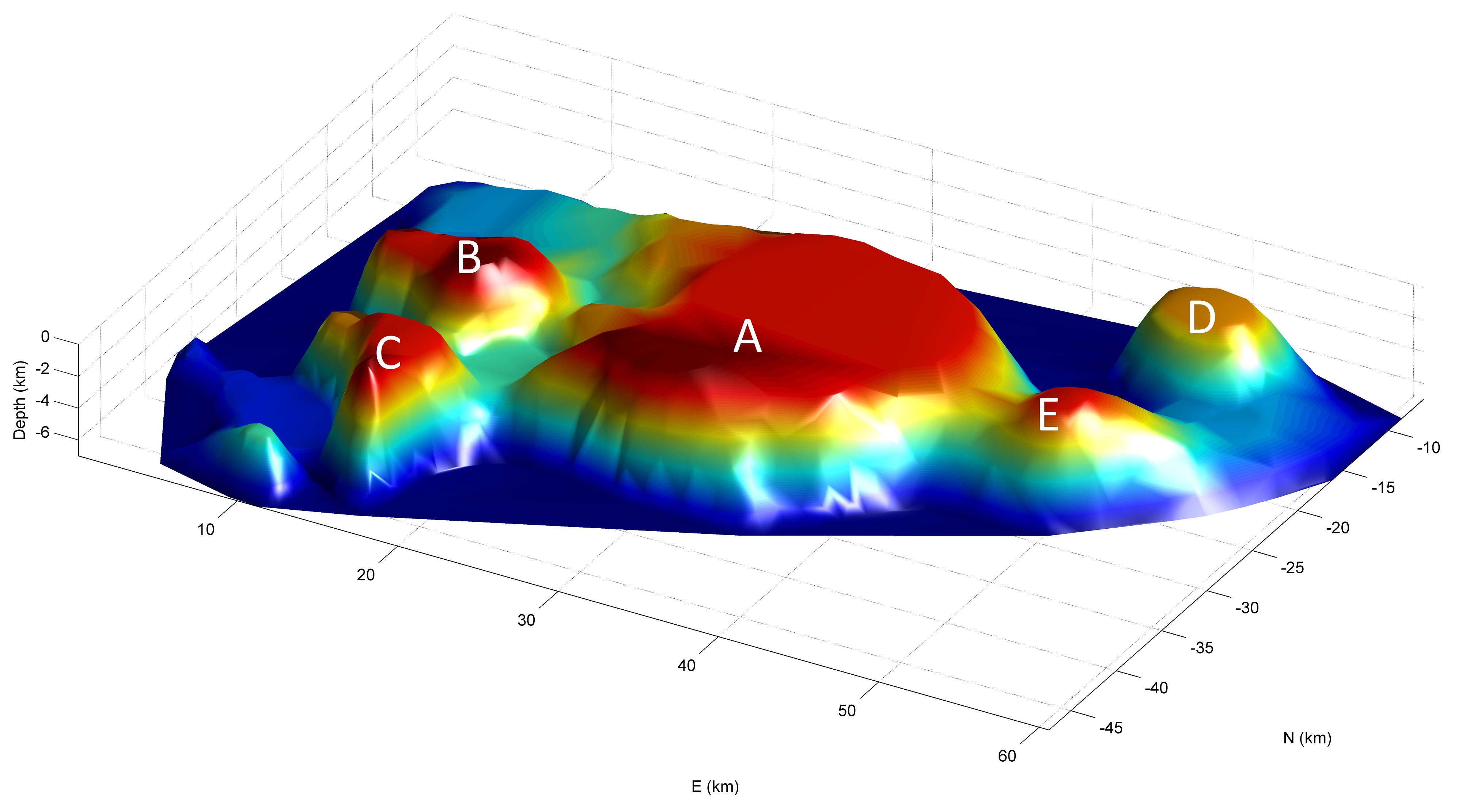 3D model of the North Pennine Batholith (aka the Weardale Granite), adapted from Kimbell et al. (2010). The batholith is composed of five plutons: A: Weardale Pluton B: Tynehead Pluton C: Scordale Pluton D: Rowlands Gill Pluton E: Cornsay Pluton